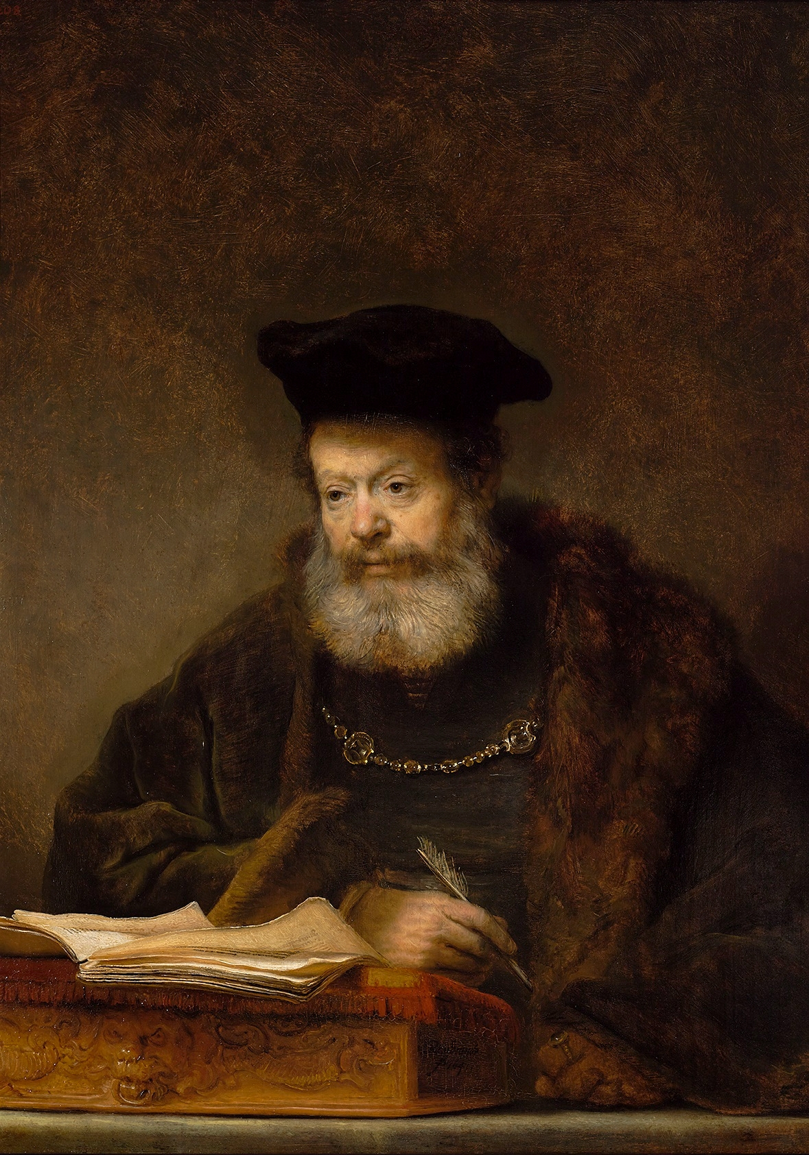 Pendant of The Girl in a Picture Frame (The Jewish Bride).